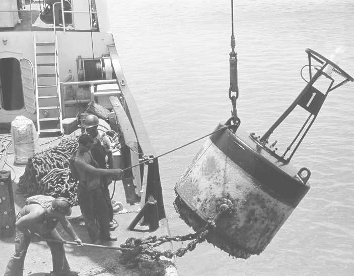 A 2,200-pound Qui Nhon harbor buoy is hoisted aboard to be serviced by USCGC Blackshaw.